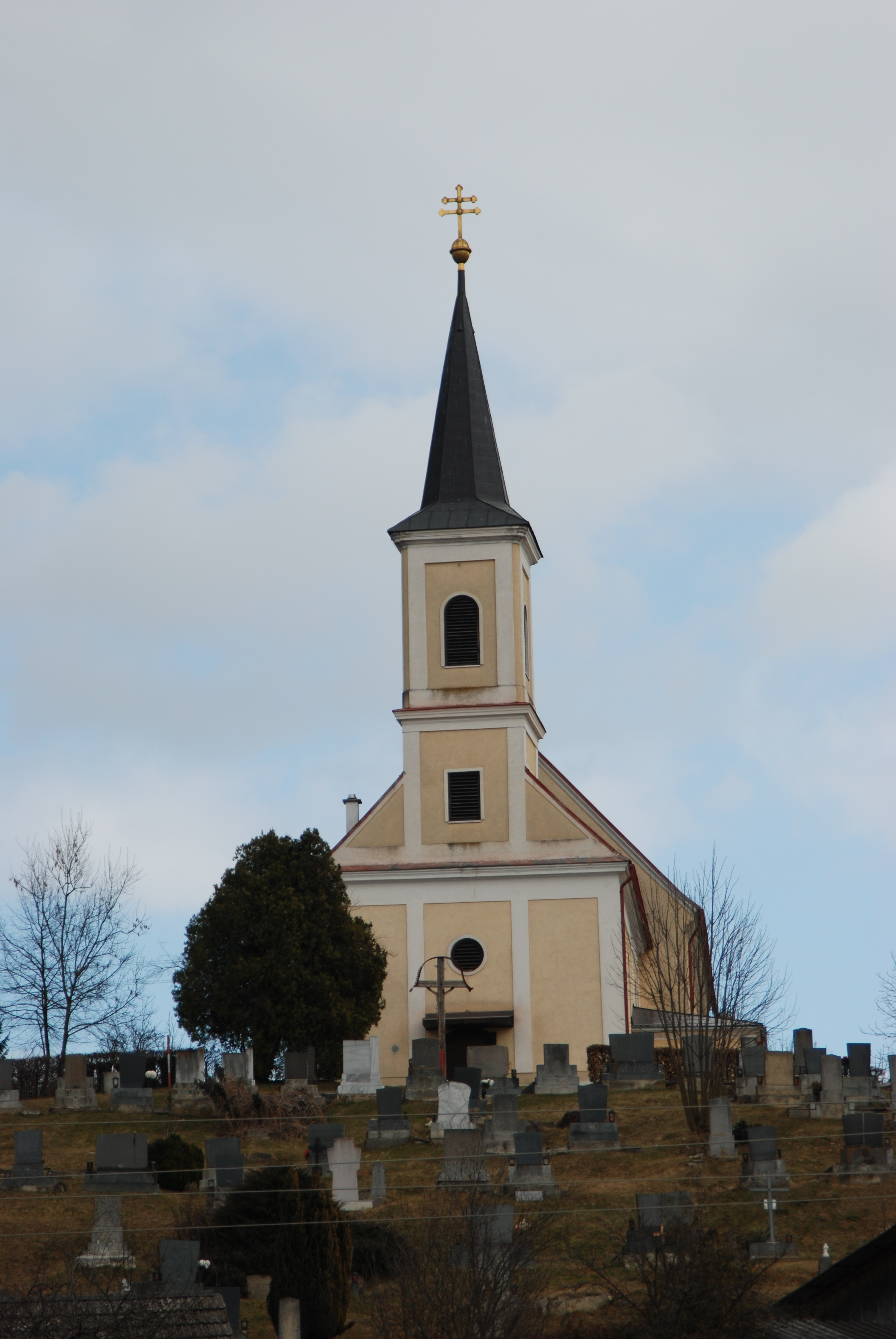 Pfarrkirche Olbendorf